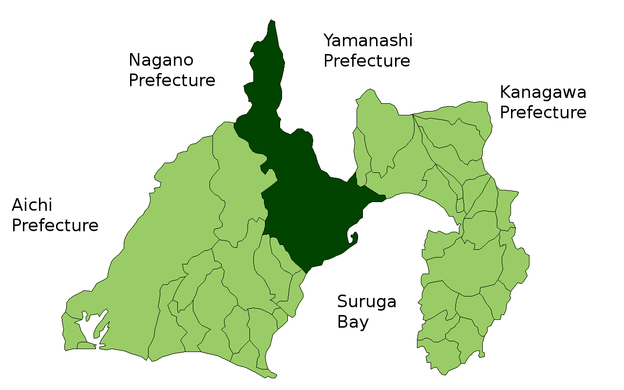 The location of Shizuoka in Shizuoka Prefectuur, Japan